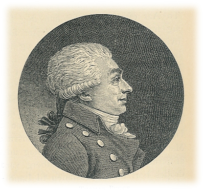 Thomas Bugge